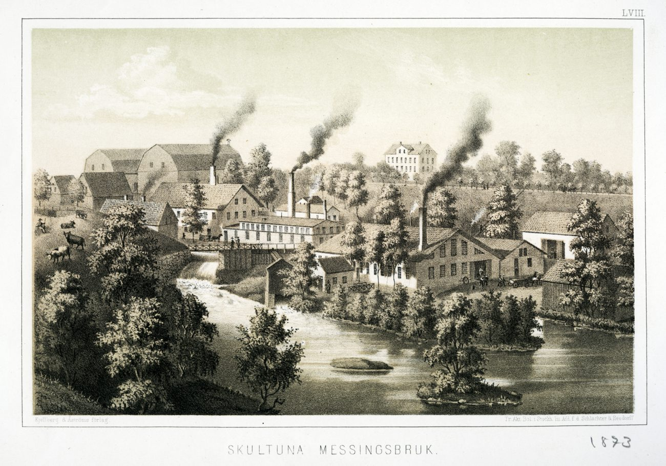 Skultuna Messingsbruk (Brass manufacturing industry) outside Västerås, Sweden. Picture from 1873. Downloaded with permission from Tekniska Museets samlingar (Swedish Technical Museum collections)